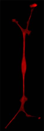 A cultured Schwann cell stained for the actin cytoskeleton with phalloidin-Rd